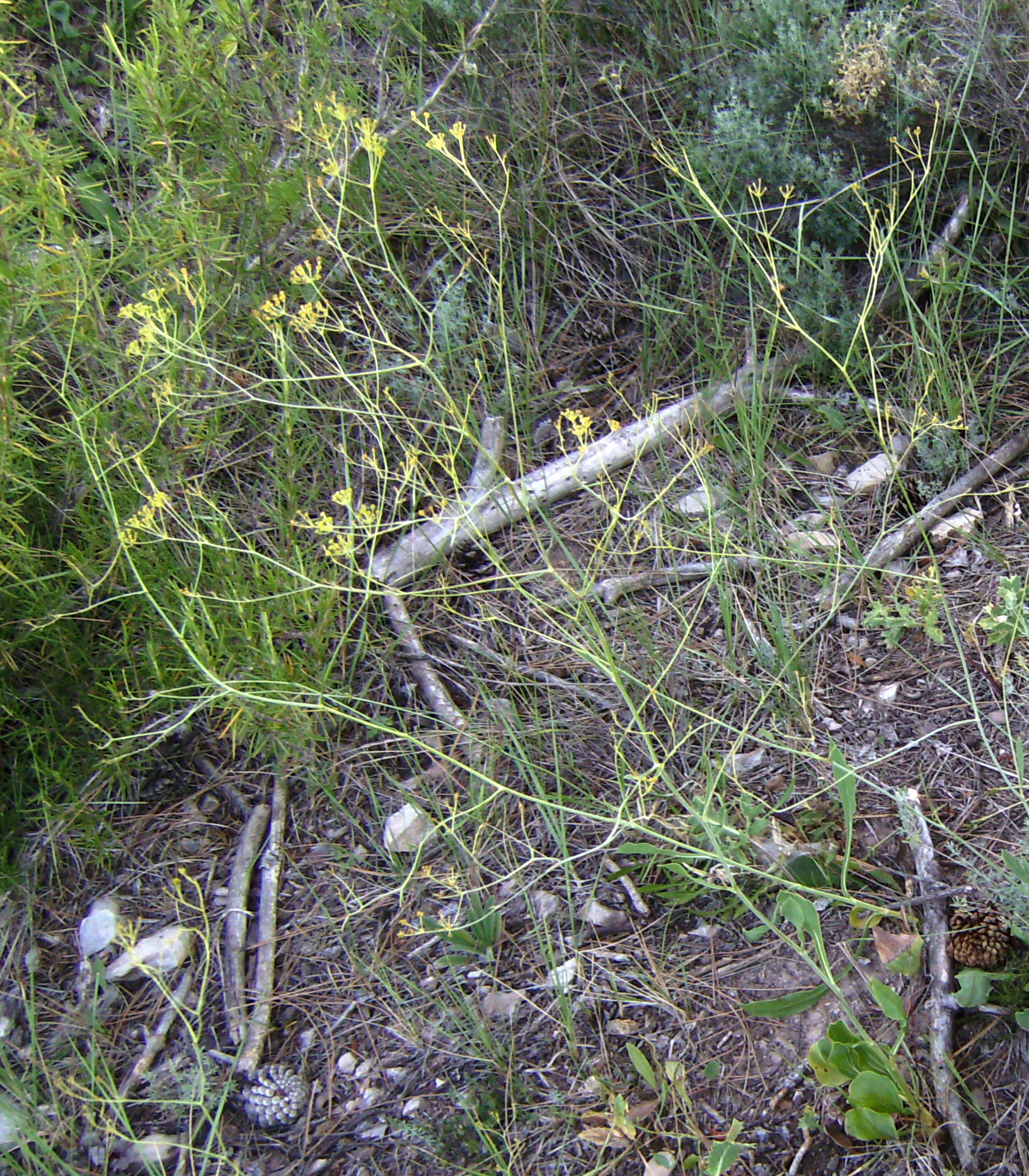 Bupleurum rigidum flowering plants in august. Castelltallat, Catalonia